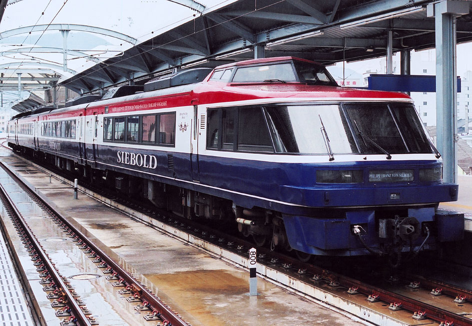 JR Kyushu KiHa 183-1000 series "Siebold" DMU